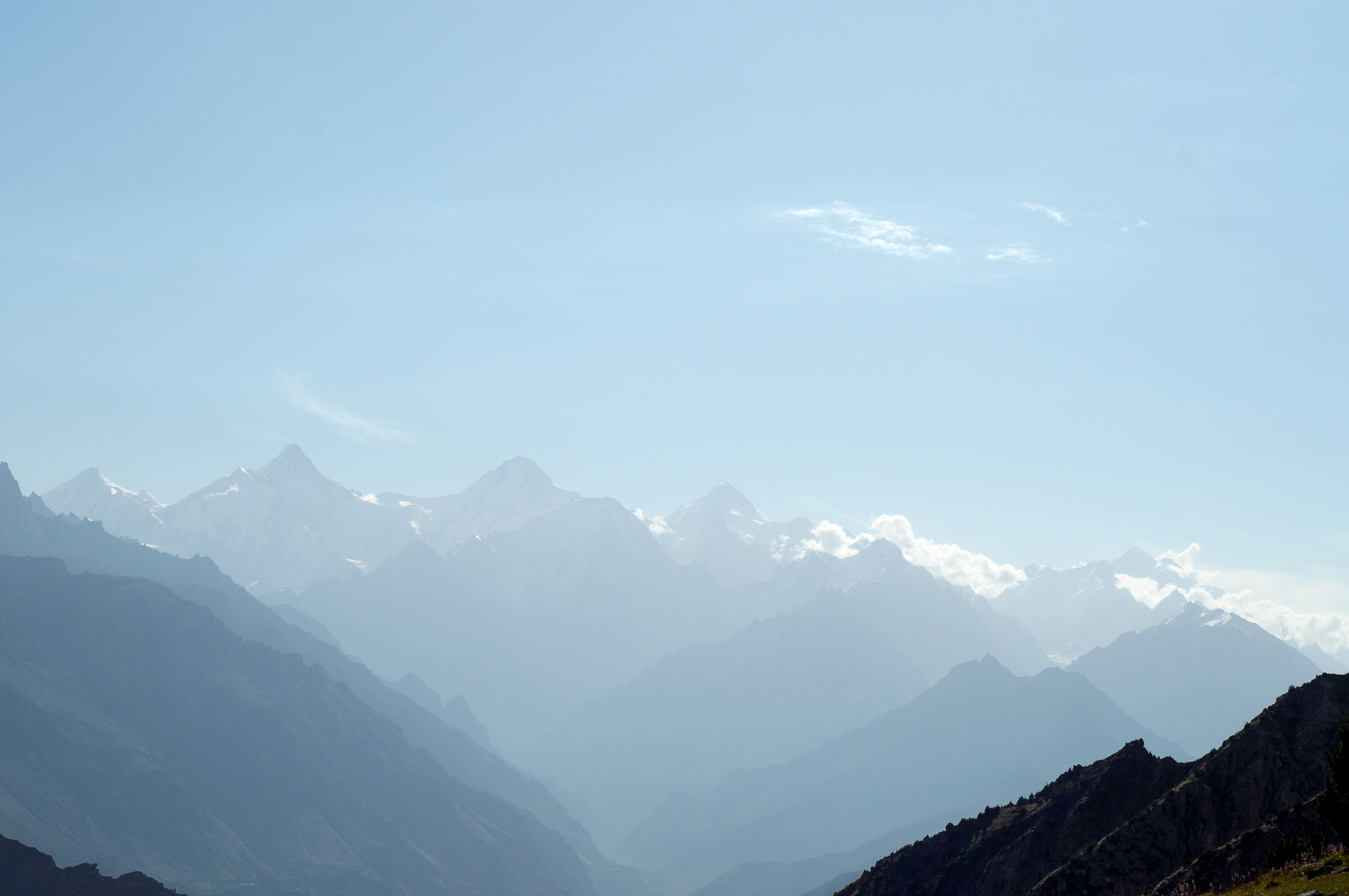 View from the Hunza valley towards the south-west faces of Lupghar Sar, Momhil Sar and Trivor, the westernmost 7000ers of the Hispar Muztagh. On the right there is Kunyang Chhish